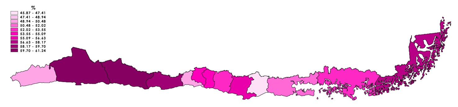 Using information from the Interior Ministry, which is not the final count, but whose percentages are extremely close to the final result given by the Election Qualifier Tribunal (Tricel).